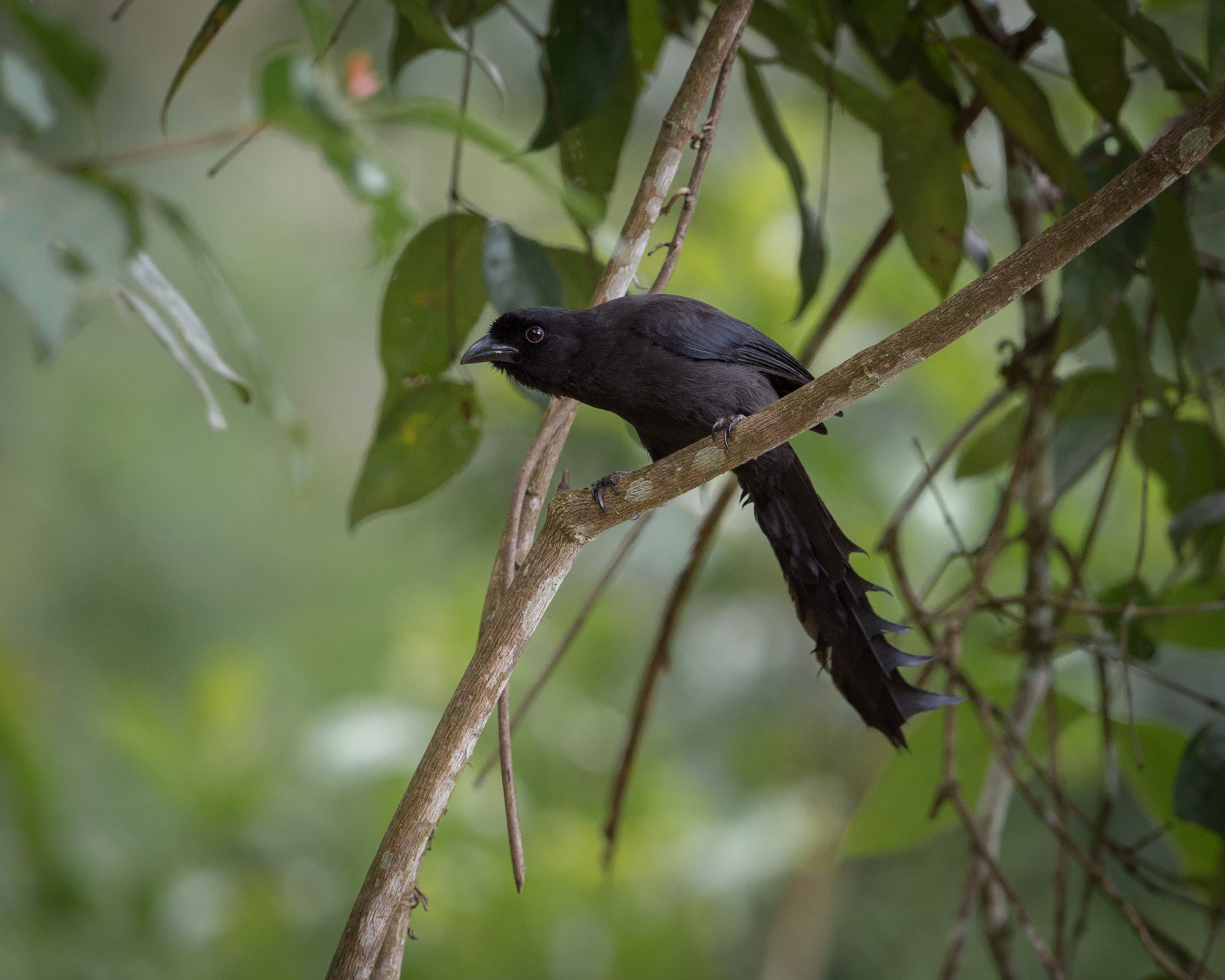 Ratchet-tailed Treepie